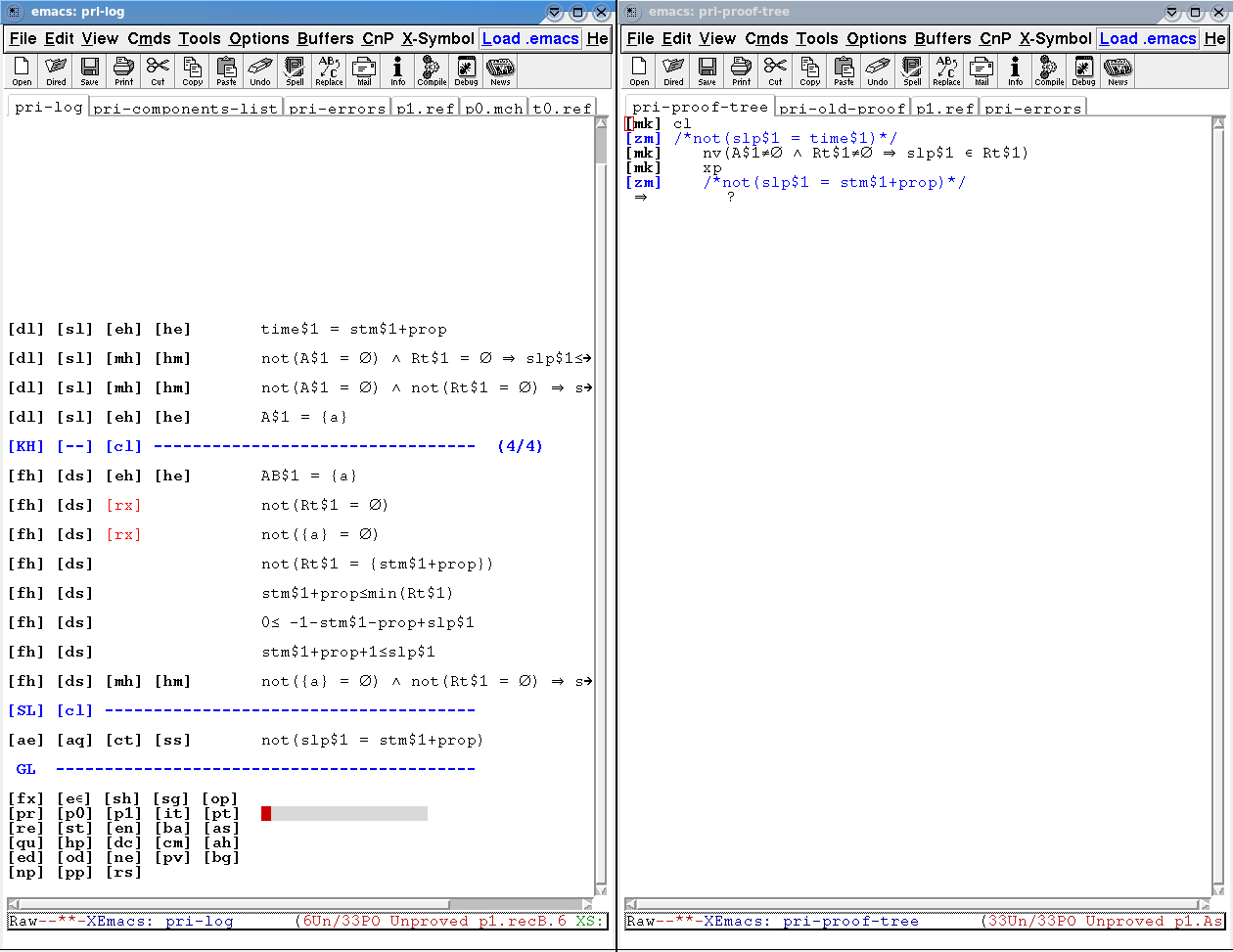 A screenshot of the Click'n'Prove application showing work on a proof.